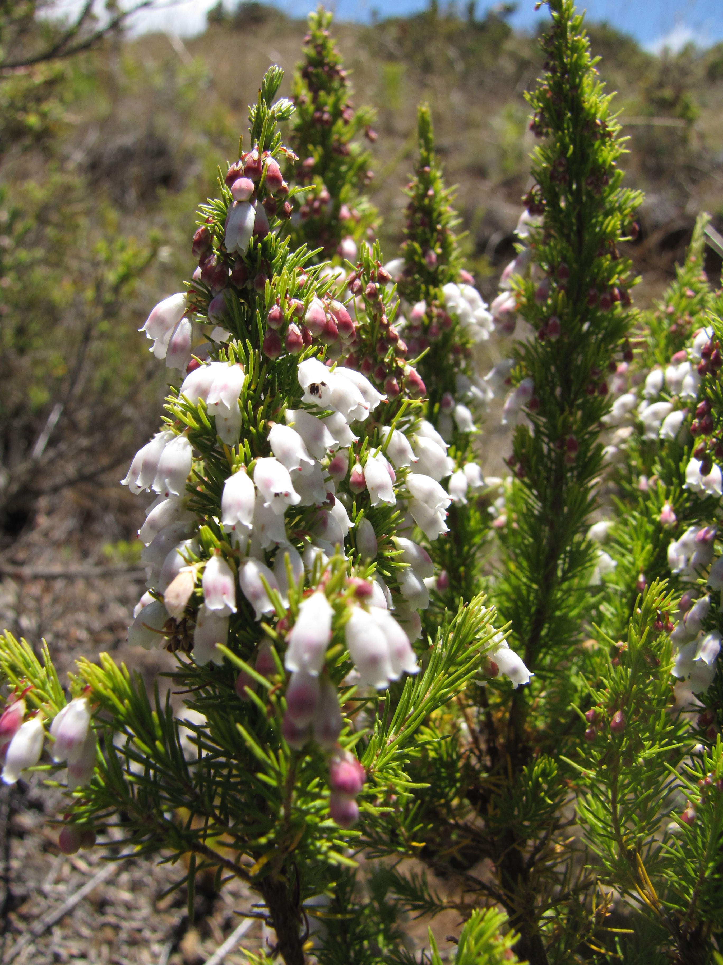 Erica lusitanica (Spanish heath) Flowers at Waiale Gulch, Maui, Hawaii. September 20, 2011 #110920-9171 Image Use Policy